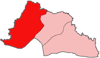 Map of Grand Gedeh County, Liberia showing Gbarzon District; created with the GIMP. Made by User:Acntx.